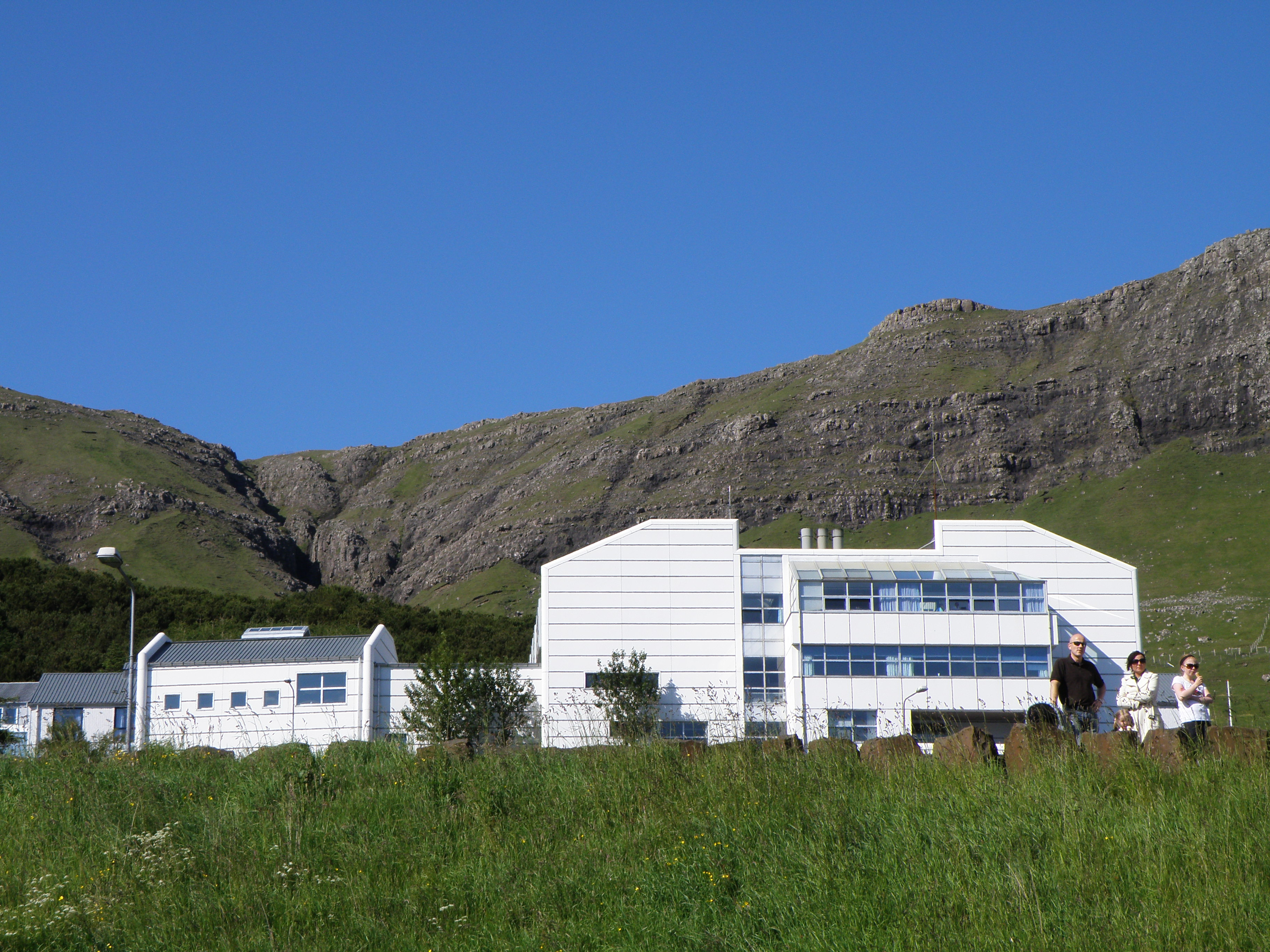 There are three hospitals in the Faroe Islands, this one is Suðuroyar Sjúkrahús, the Suduroy Hospital, which is located in Tvøroyri on Suðuroy. The first hospital on Suðuroy was built in 1904. In 1953 they built a new hospital, and in 2005 a new building was built next to the old one. The other two hospitals are Landssjúkrahúsið in Tórshavn and Klaksvíkar Sjúkrahús in Klaksvík. This photo was taken on 26 June 2009 and shows only the new building. Føroyskt: Suðuroyar Sjúkrahús er á Tvøroyri. Fyrsta sjúkrahúsið varð bygt í 1904. Tað næsta var bygt í 1953. Í 2005 var ein nýggjur bygningur bygdur afturat verandi sjúkrahúsbygningi. Henda myndin var tikin á Jóansøku 2009.